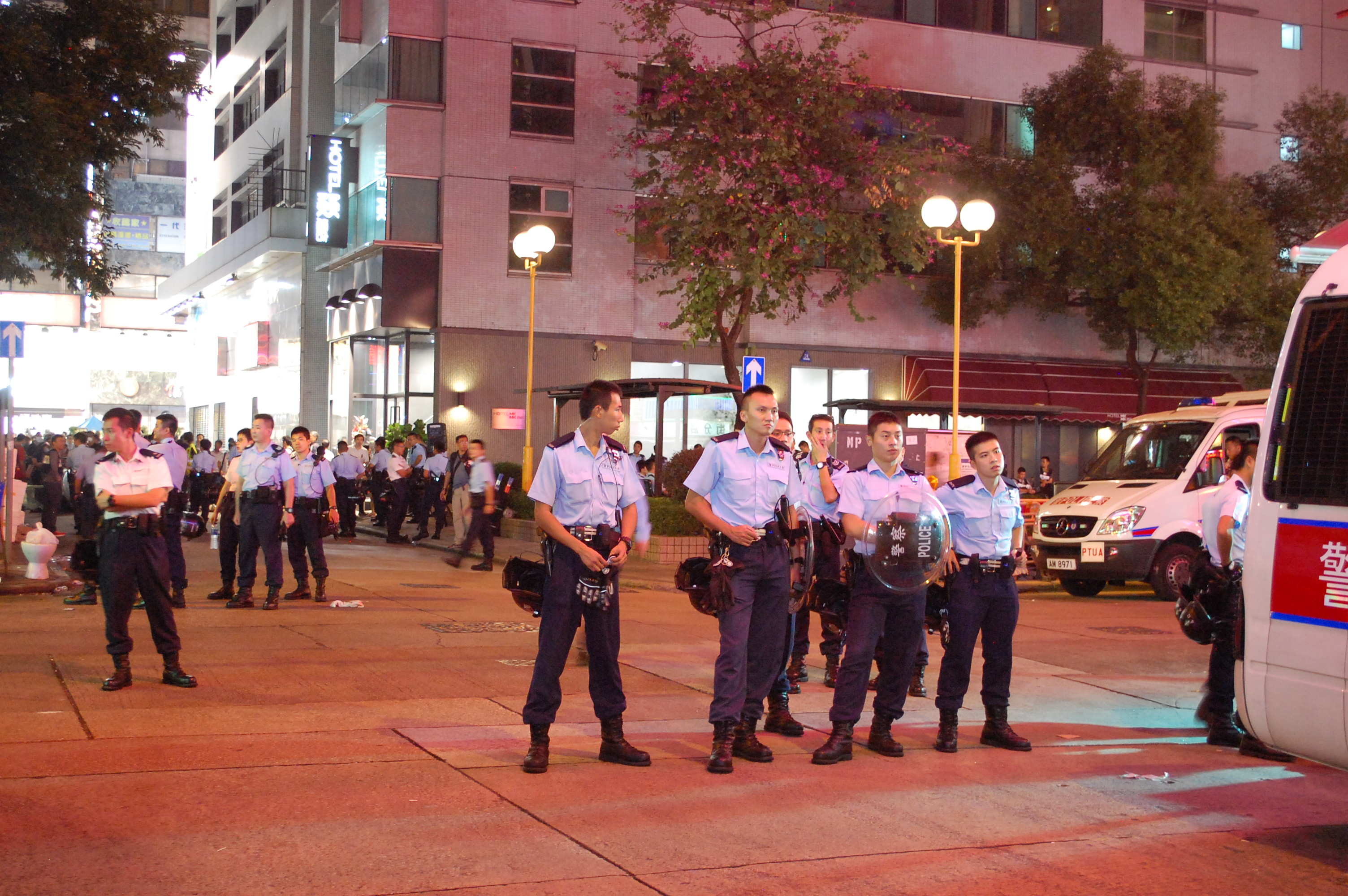 Umbrella Movement protests, Mong Kok, Hong Kong on 25 November 2014.